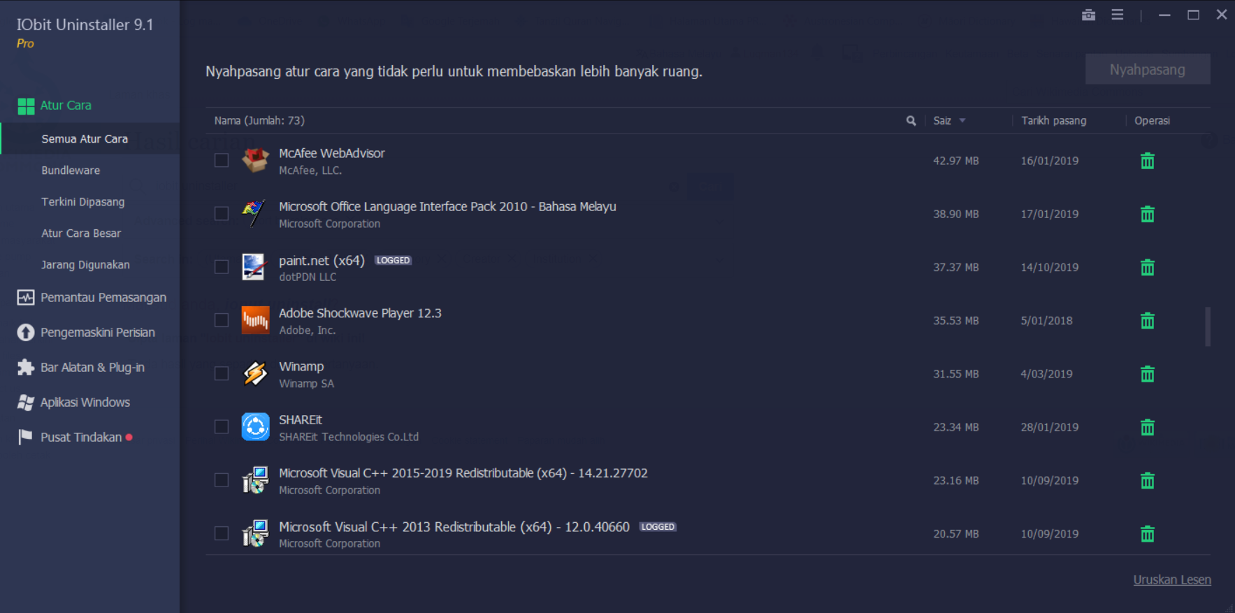 IObit Uninstaller completely uninstall unwanted uoftware, Windows apps & browser plug-ins